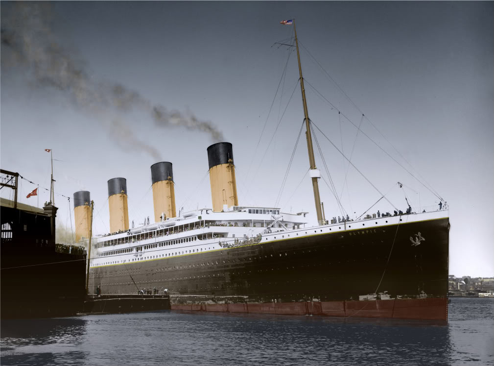 RMS Olympic